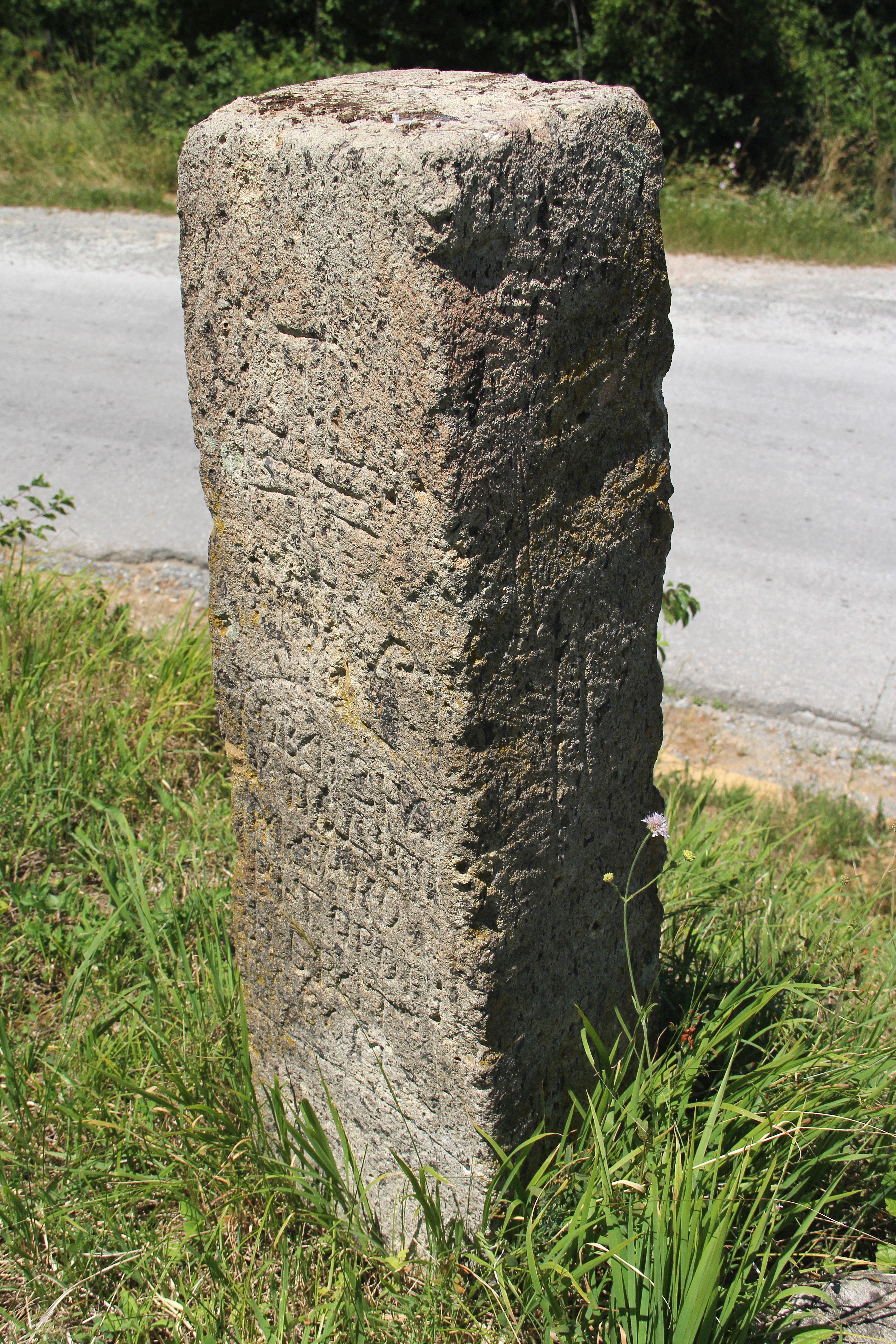 Roadside tombstone erected in memory of Milutin Vitorovic. It is located in the village of Zagradje (the municipality of Gornji Milanovac), Serbia.